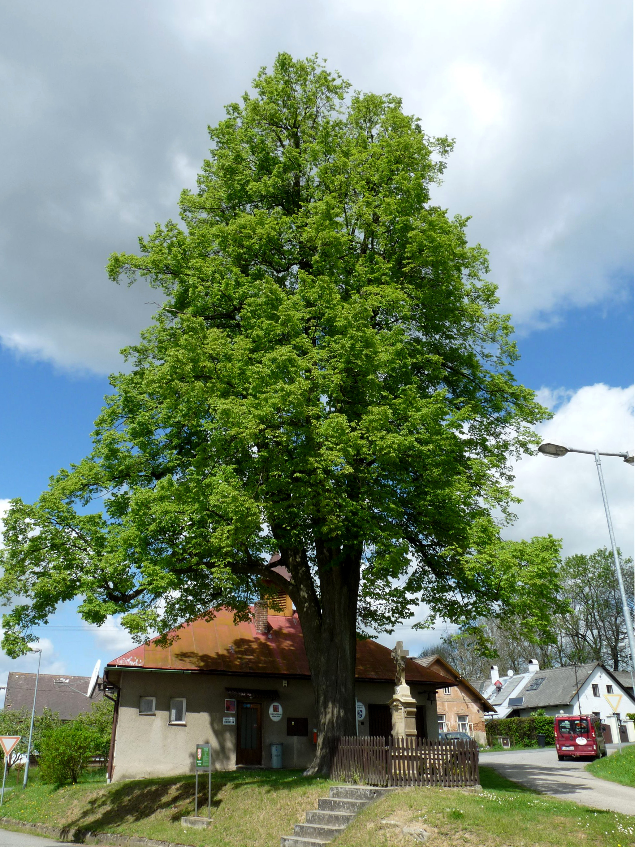 Famous tilia in the village of Modlíkov, Havlíčkův Brod District, Vysočina Region, Czech Republic.